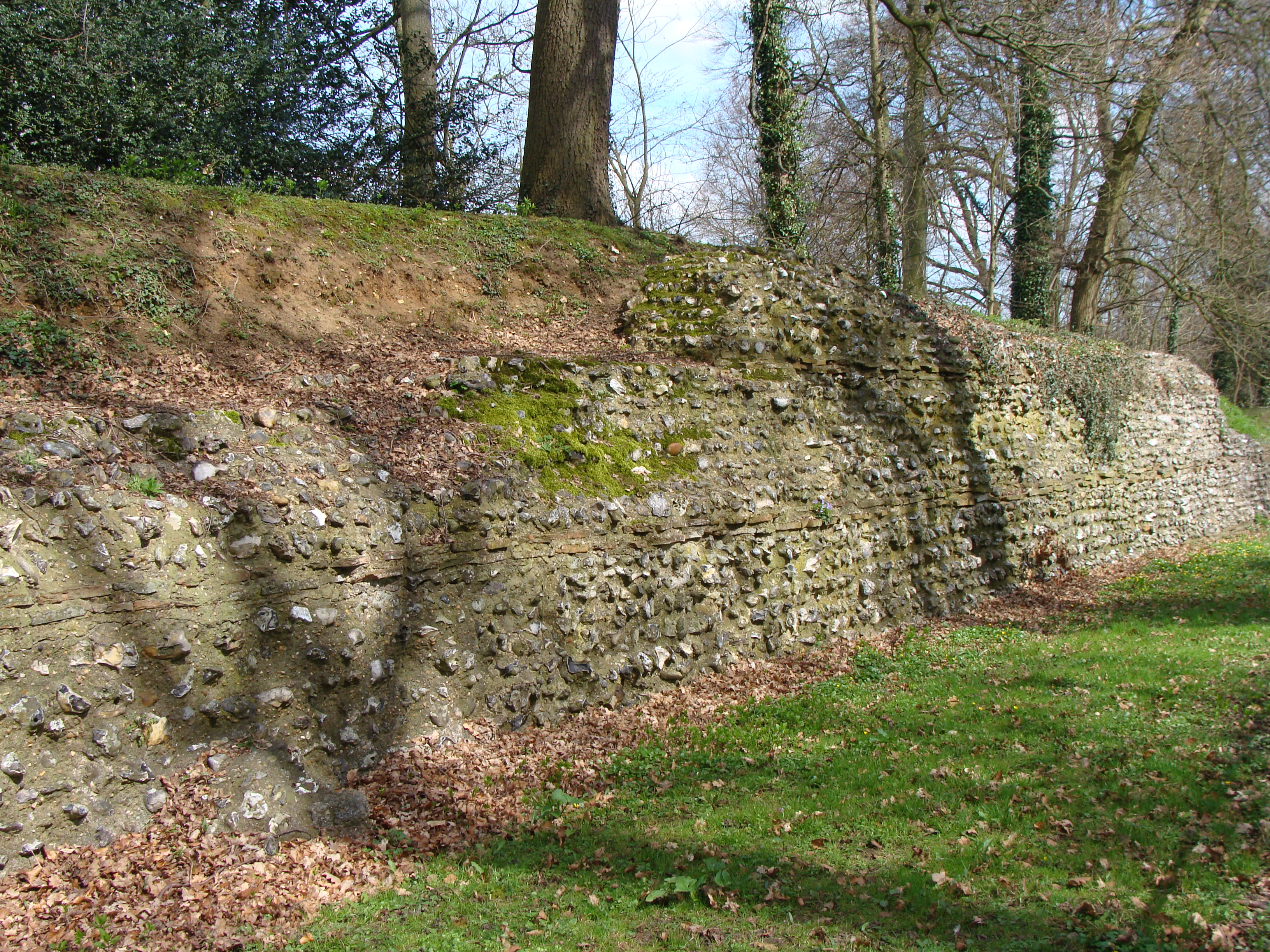 Remains of Roman walls of Verulamium (St Albans, Hertfordshire, England)